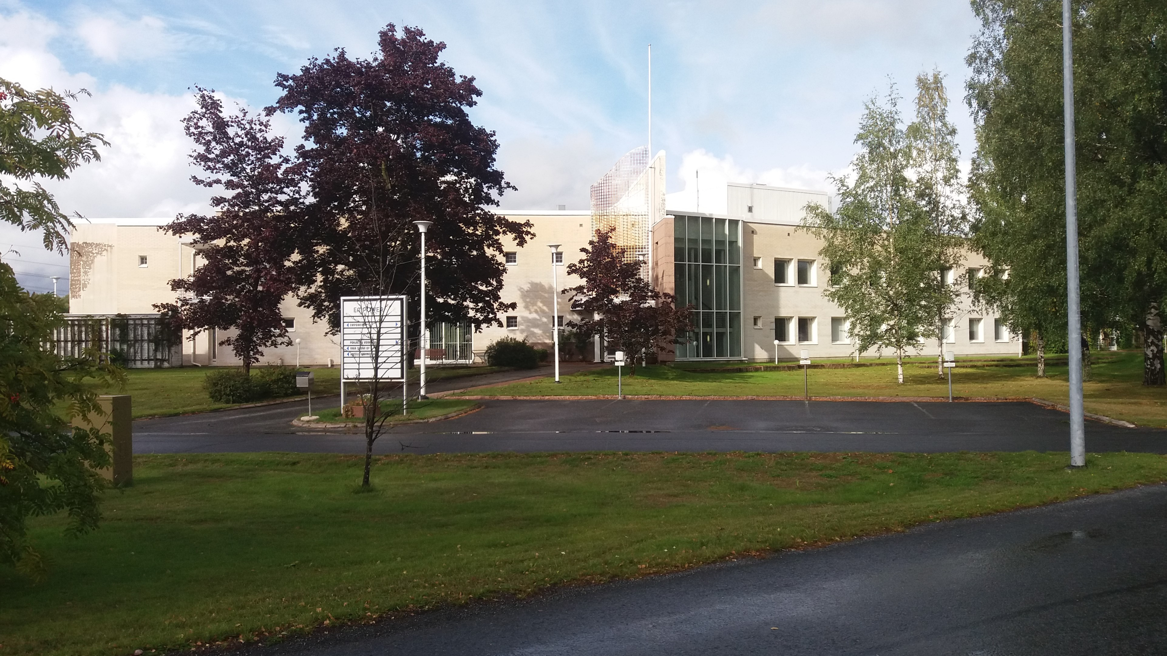 Lammaistenlahti cultural landscape. Empower Ltd. building by the Harjavalta hydro electric plant in Nakkila, Finland.